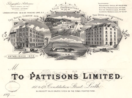 letterhead of Pattison's Ltd.